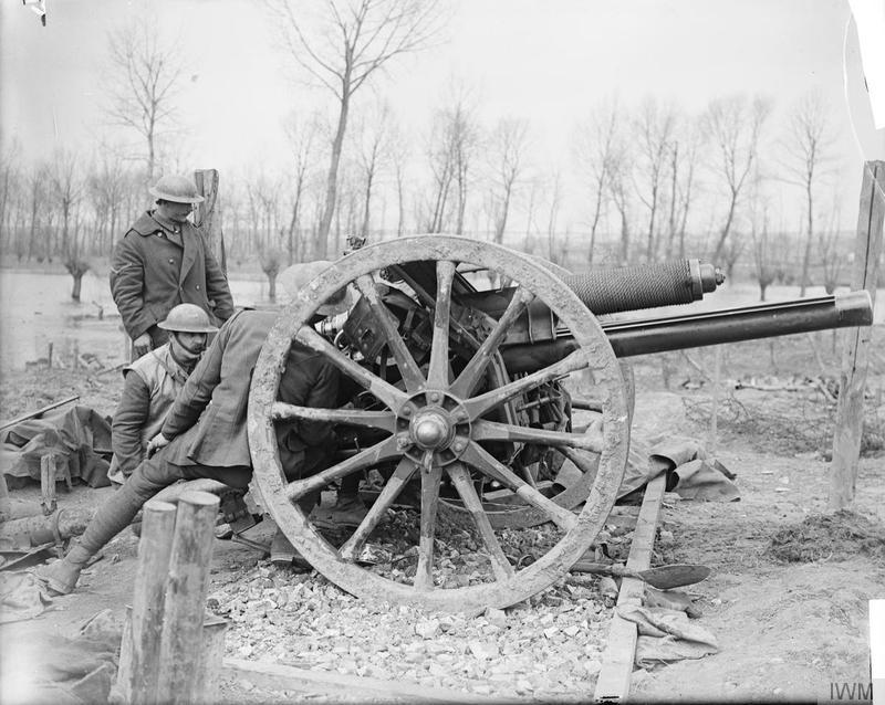 The Battle of Arras, April-may 1917 18 pounder gun of the Royal Field Artillery in action. Near Arras, 29 April 1917.